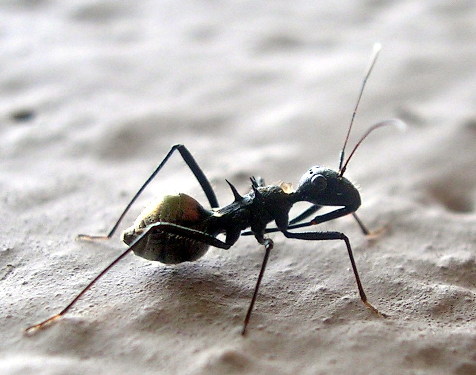 Dulichius inflatus (Kirby) (Alydidae:Hemiptera), Bangalore